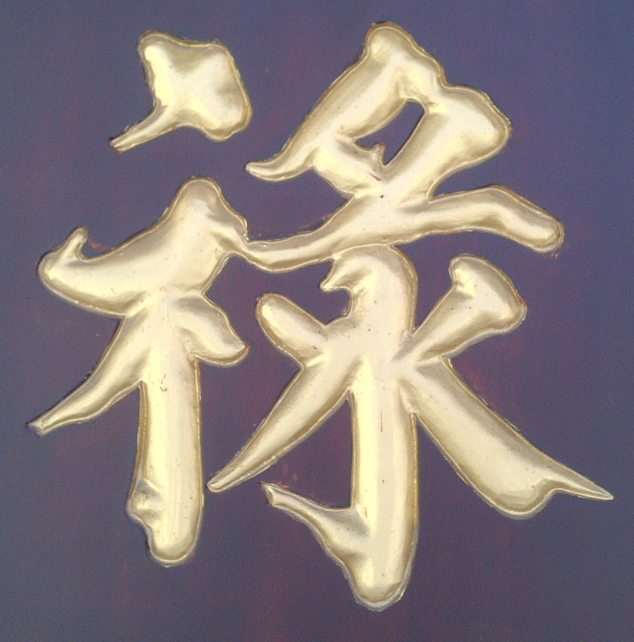 Chinese character Lu (status)